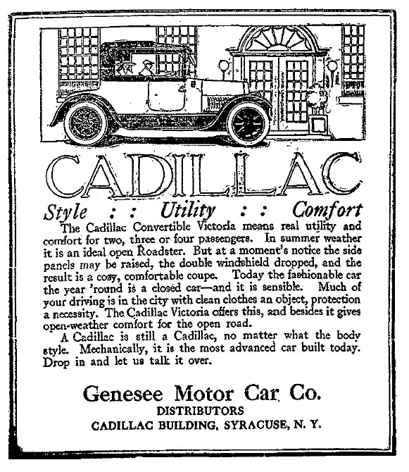 A 1917 Cadillac Advertisement - "Style, Utility, Comfort"